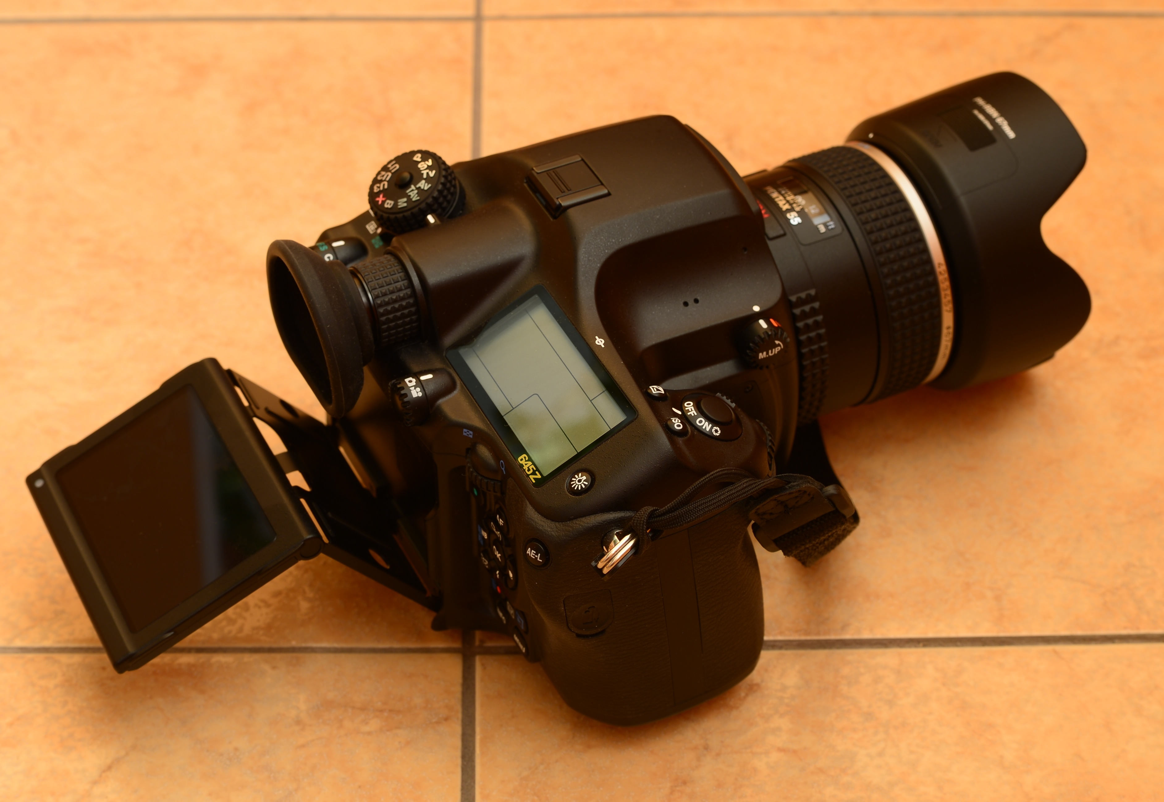 Pentax 645Z - DFA 645 55mm f/2.8